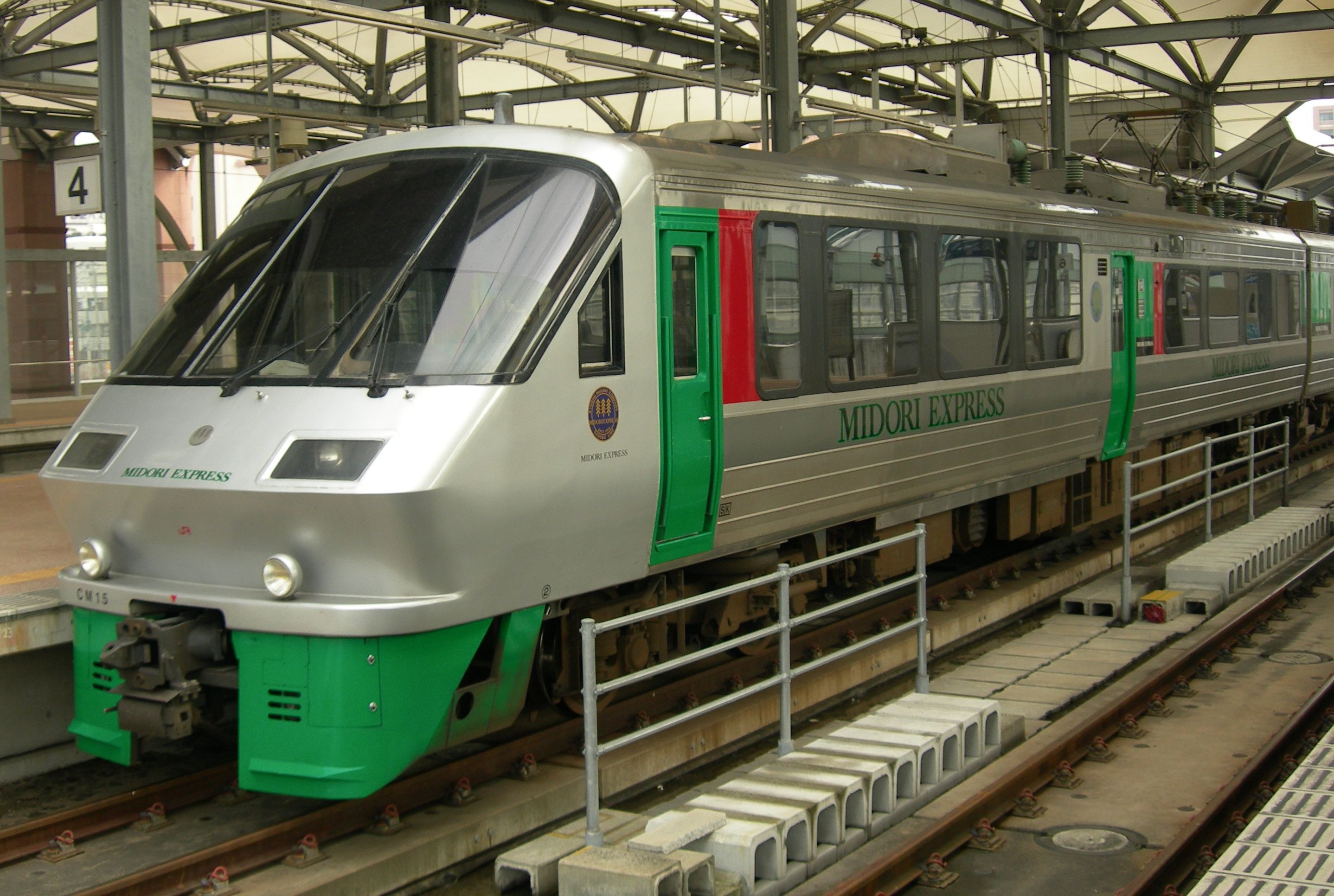 JR Kyushu 783 series set CM15 on a "Midori" service at Sasebo Station